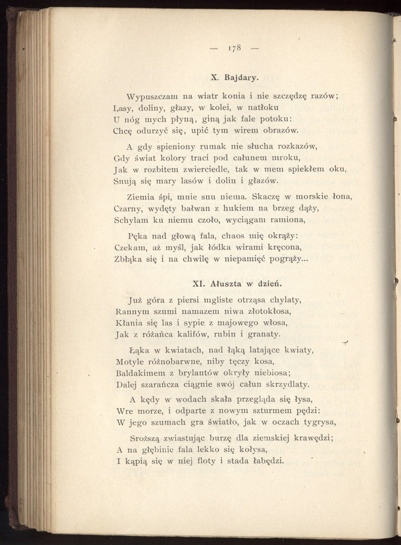 Poems by Adam Mickiewicz. V. 1. - Kraków; 1899; Adam Mickiewicz (1798-1855)